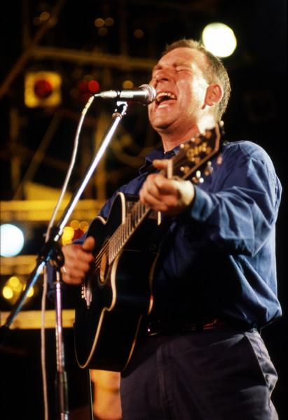 Brendan Croker performing live at EBU open air festival in Novi Sad, Yugoslavia (now Serbia), September 1989.